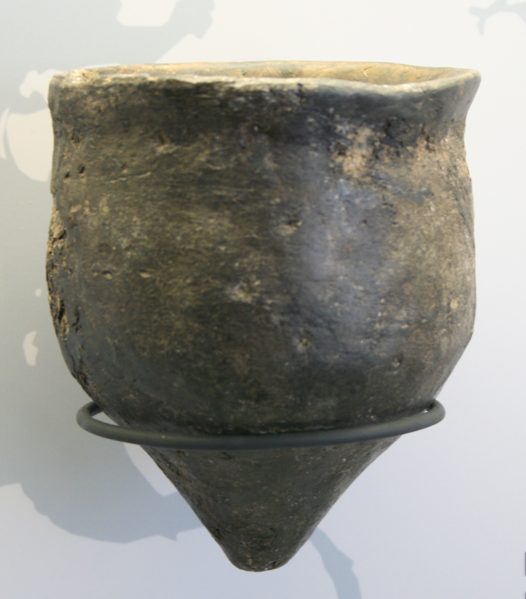 Archaeological state museum Schleswig-Holstein, Gottorf Castle